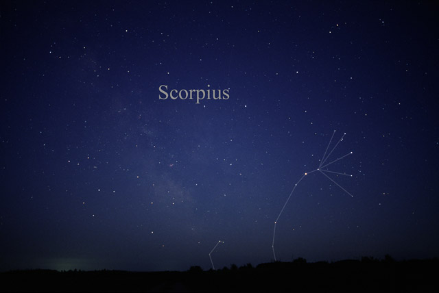 Photography of the constellation Scorpius, the scorpion.